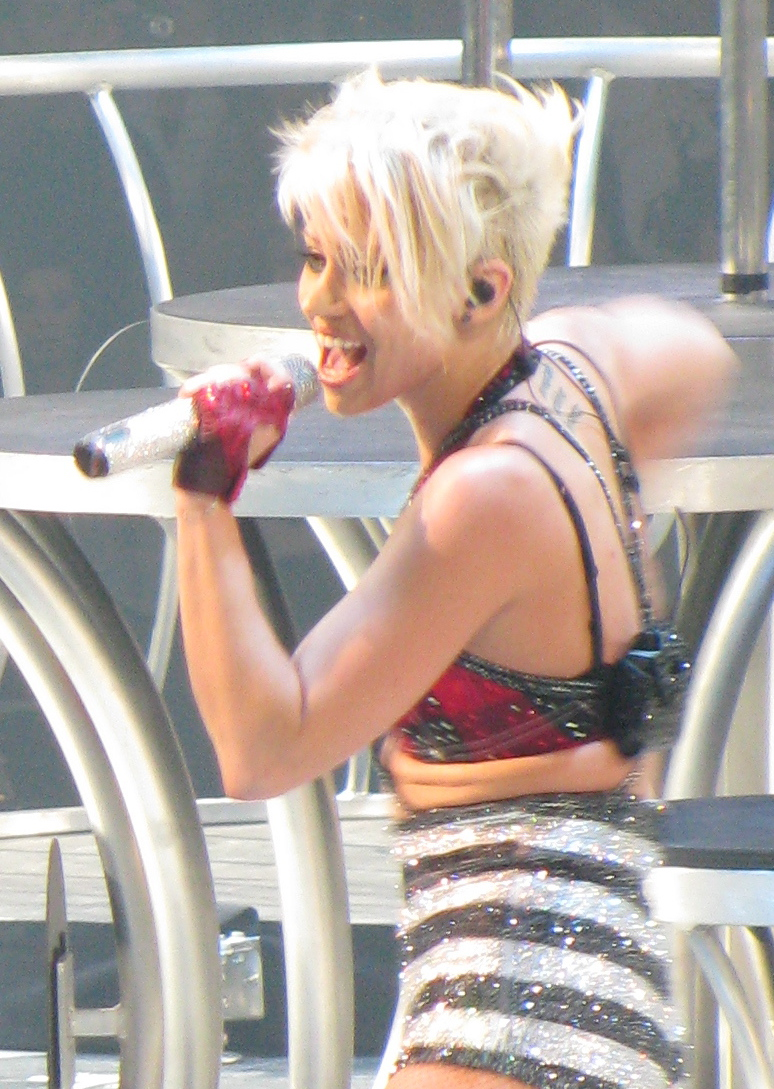 The Pussycat Dolls at The Circus Britney Spears tour